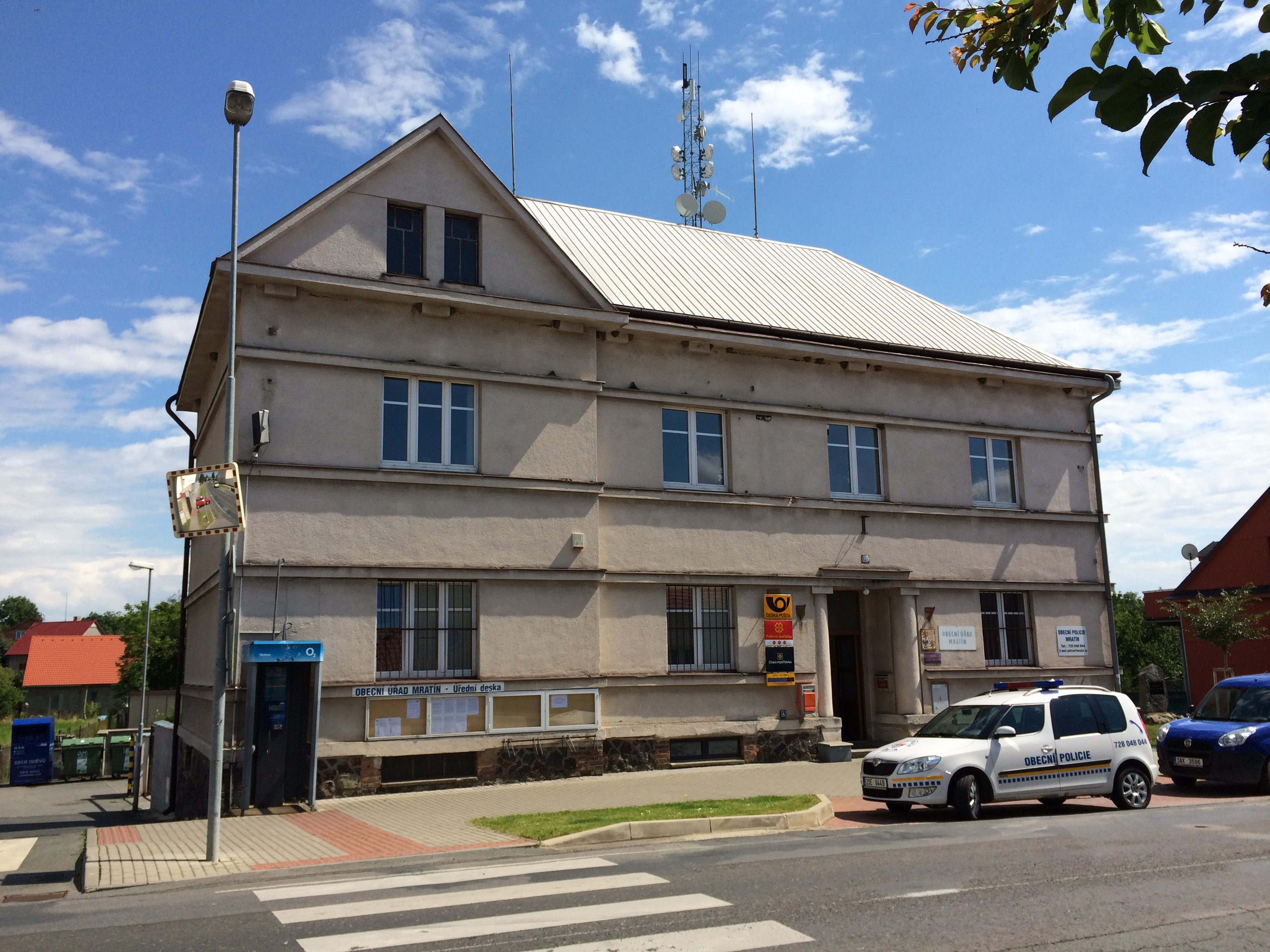 Municipal office of Mratín, Czech Republic.